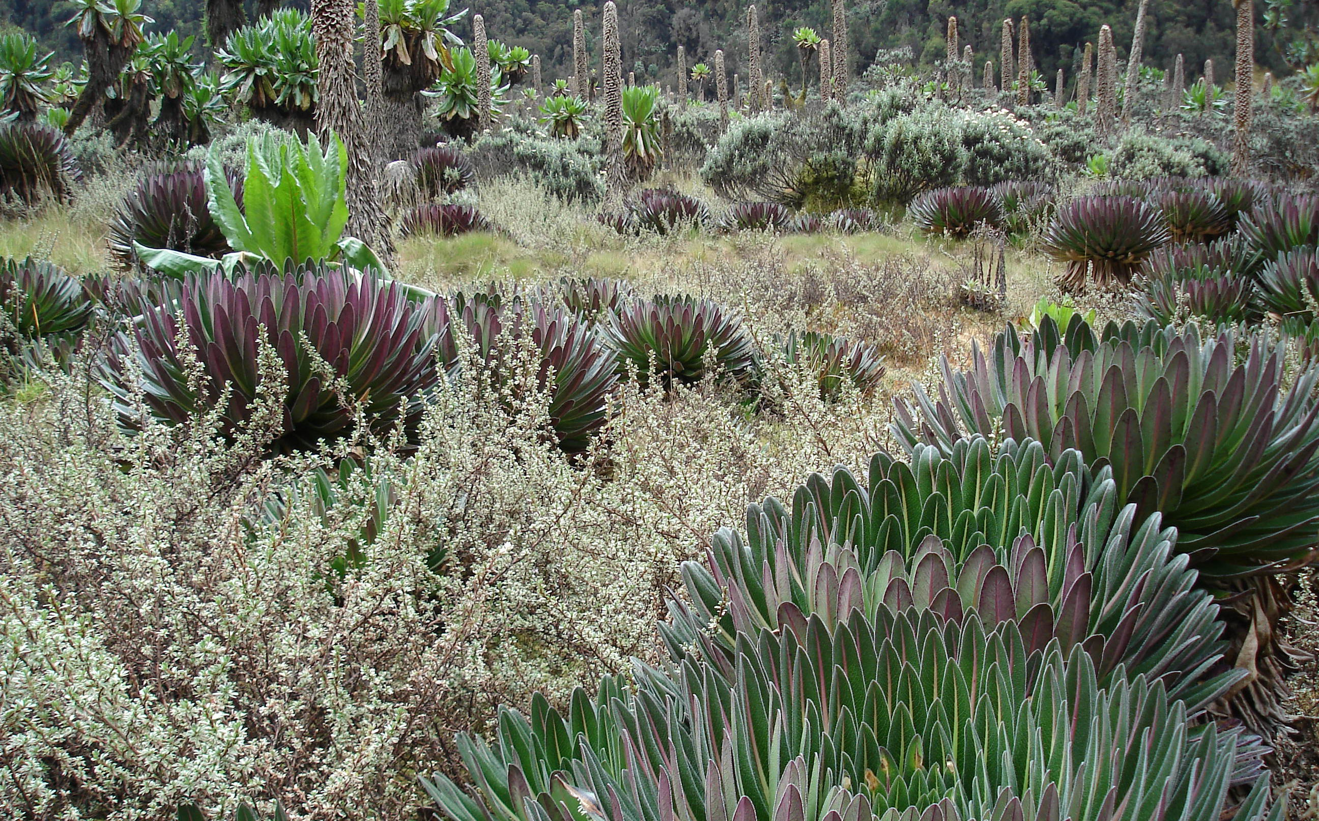 Lobelia of the Rwenzori National Park near Guy Yeoman Hut